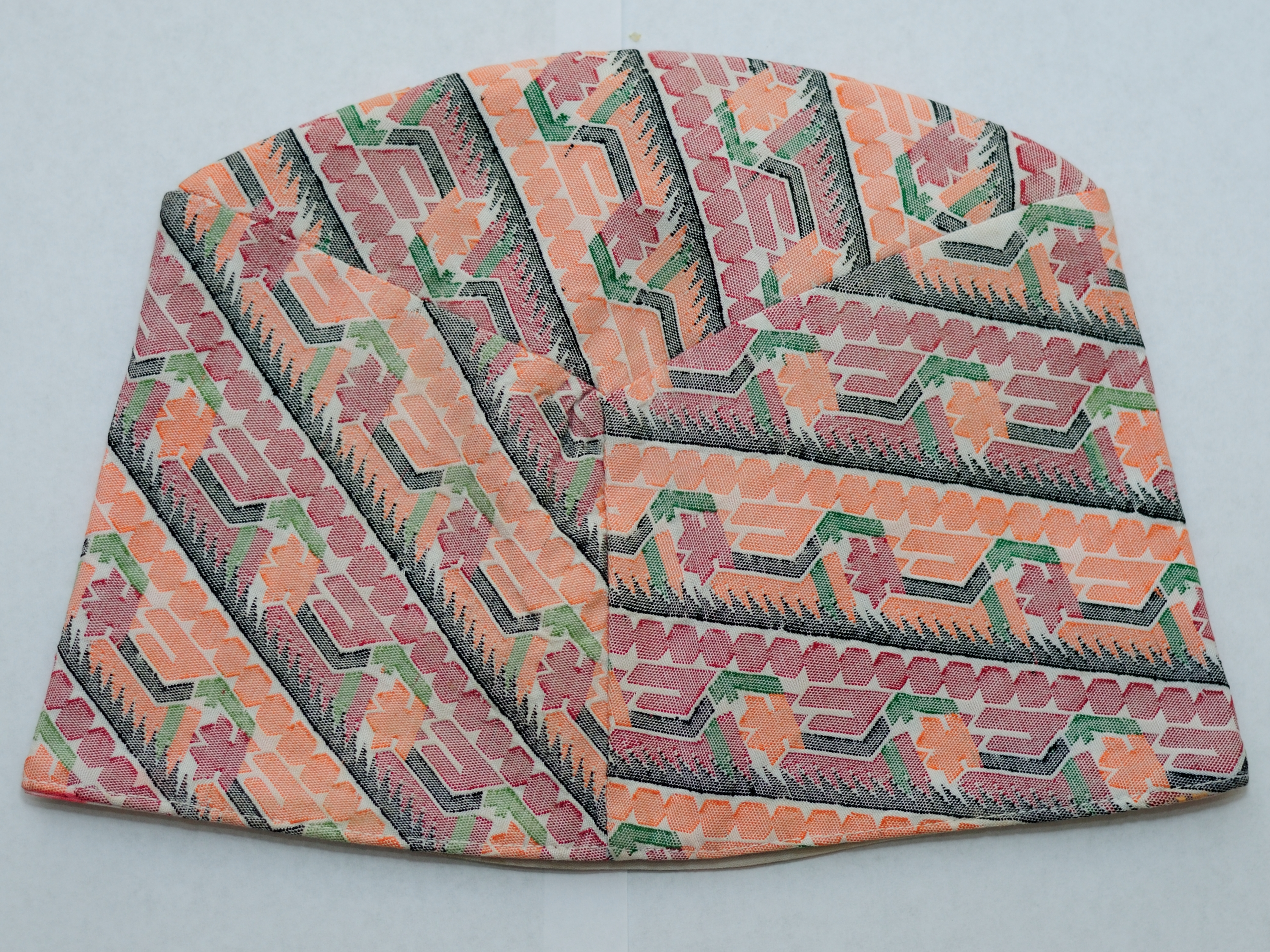 Photo of Nepali Dhaka Topi (cap)